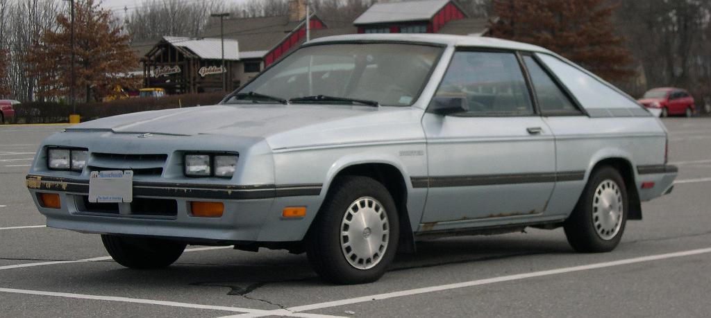 L-body Plymouth Duster, 1985 or 1986